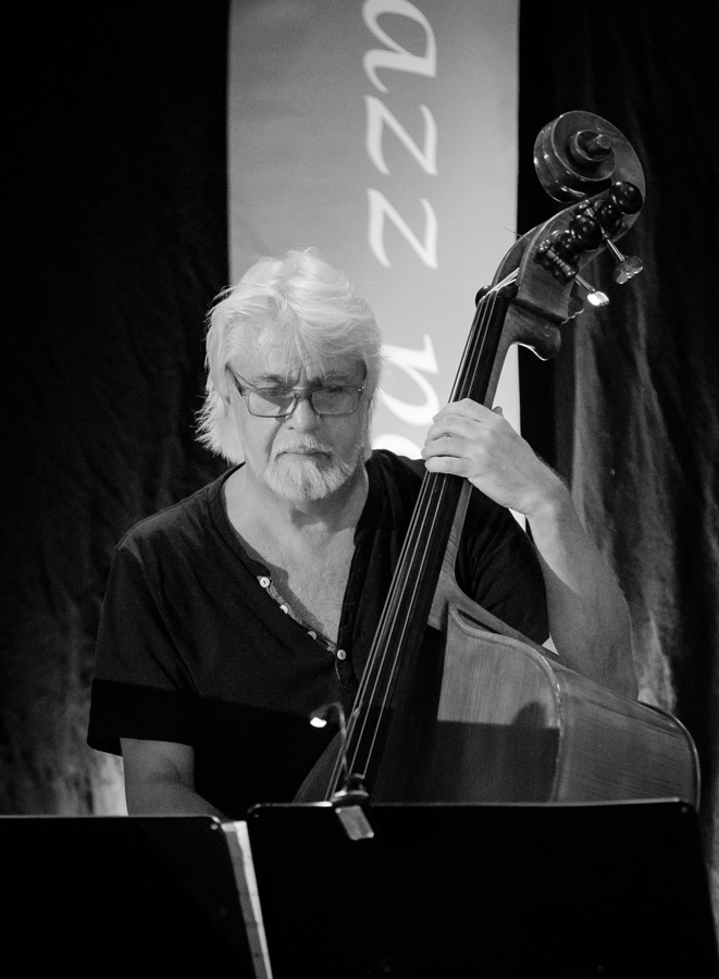 Sigurd Ulveseth with Knut Kristiansen Tentett and John Riley at the stage at Thon Hotel Jølster. The concert was part of Jazz på Jølst and took place on 14. October 2017. Lineup: Knut Kristiansen (piano), Tor Yttredal (alto saxophone), Zoltan Vincze (tenor saxophone), Michael Barnes (baritone saxophone), Are Ovesen (trumpet), Sindre Dalhaug (trombone), Fred Johannessen (horn), Knut Riser (tuba), Knut Kristiansen (piano), Sigurd Ulveseth (bass guitar) og John Riley (drums).